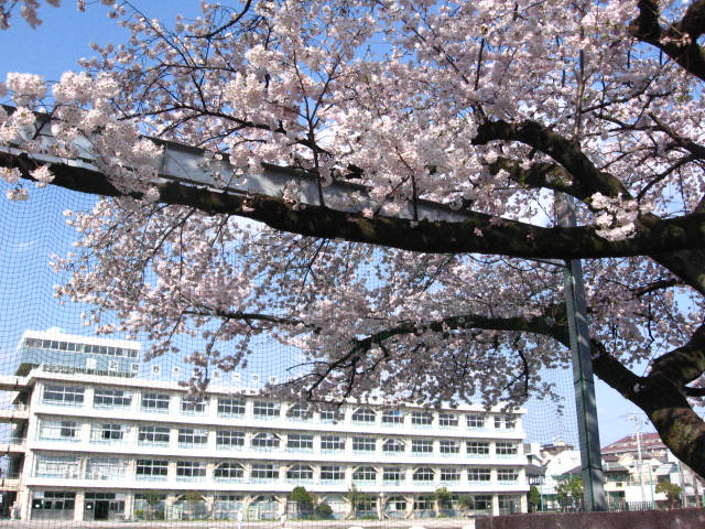 Musashino city 1st Junior high school.